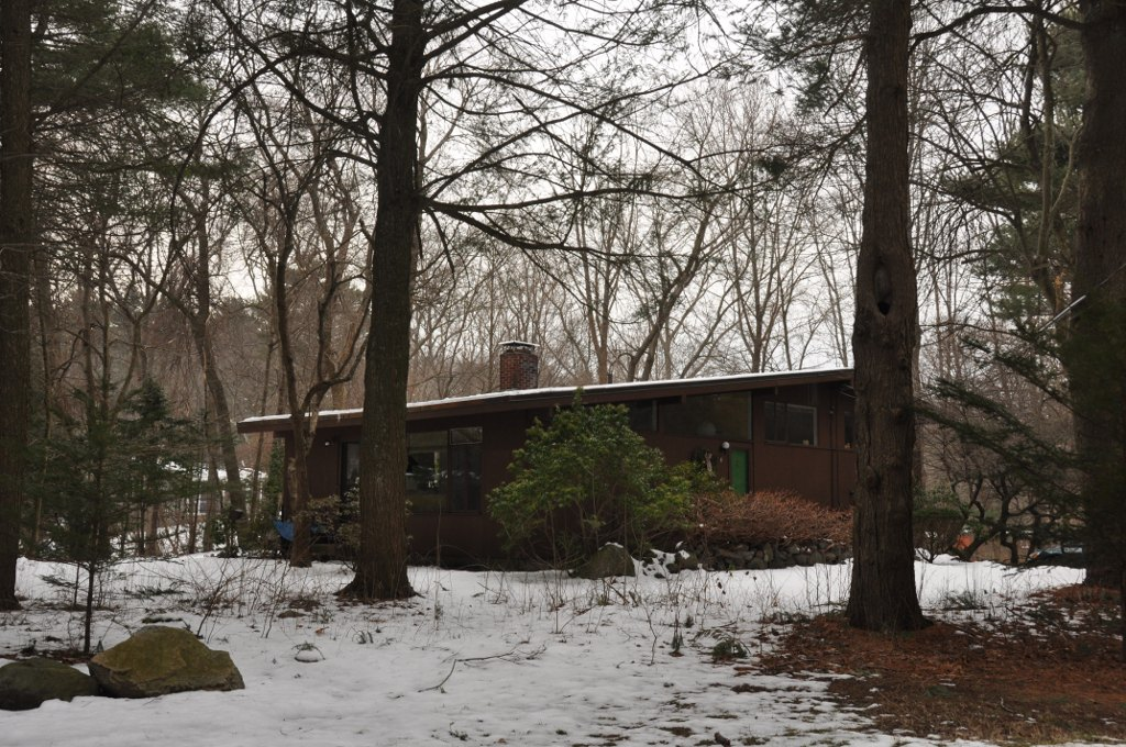 4 Compton Circle, in the Peacock Farm Historic District of Lexington, Massachusetts.